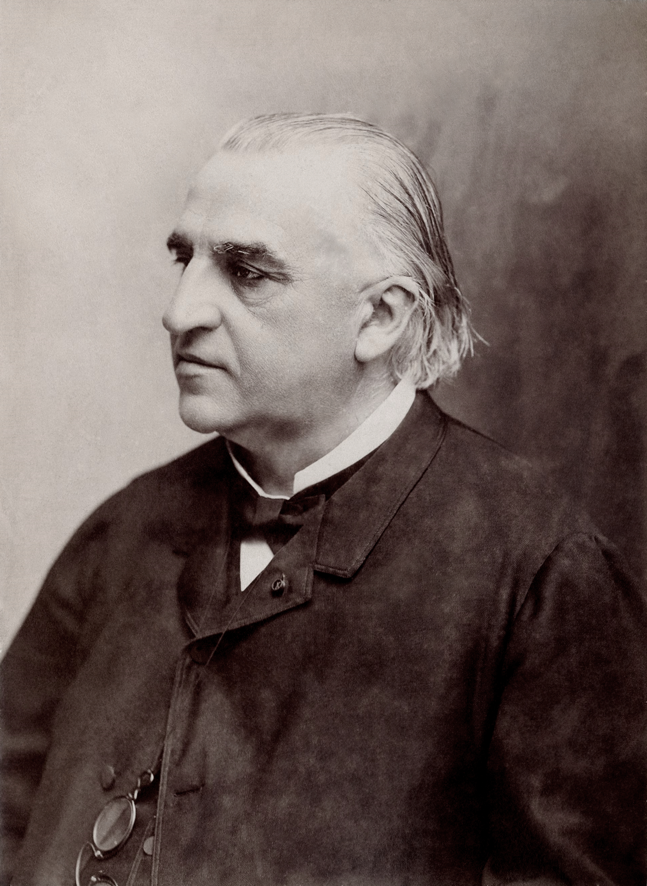 Jean-Martin Charcot (1825 - 1893), french neurologist.